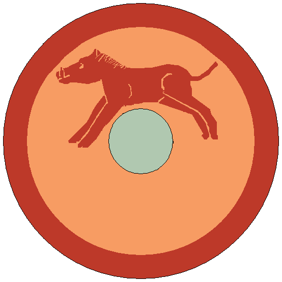 Shield pattern of Prima Flavia Gallicana Constantia in the early 5th century. Source: Notitia Dignitatum Occ. V&VII.